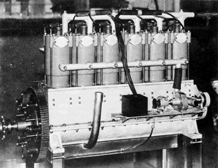 The 6-Cylinder 6-70 engine, incorporating flexible flywheel drive, exhaust side. (Smithsonian photo A-54381)